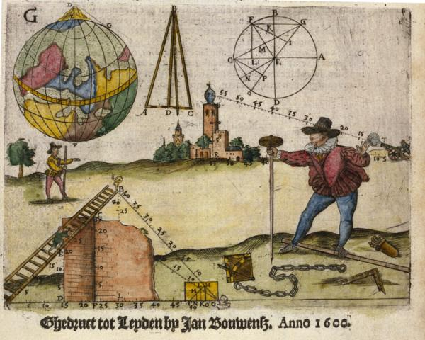 Practice of land surveying. Title page of Practijck des Lantmetens by Johan Sems & Jan Pietersz Dou. Printed by Jan Bouwensz in Leiden, 1600. Four aspects of mathematics: the circle as pure mathematics, the land surveyor, building of a fortress & navigation. Copy from the Royal Library The Hague, shelf no. 145 D 19: 1